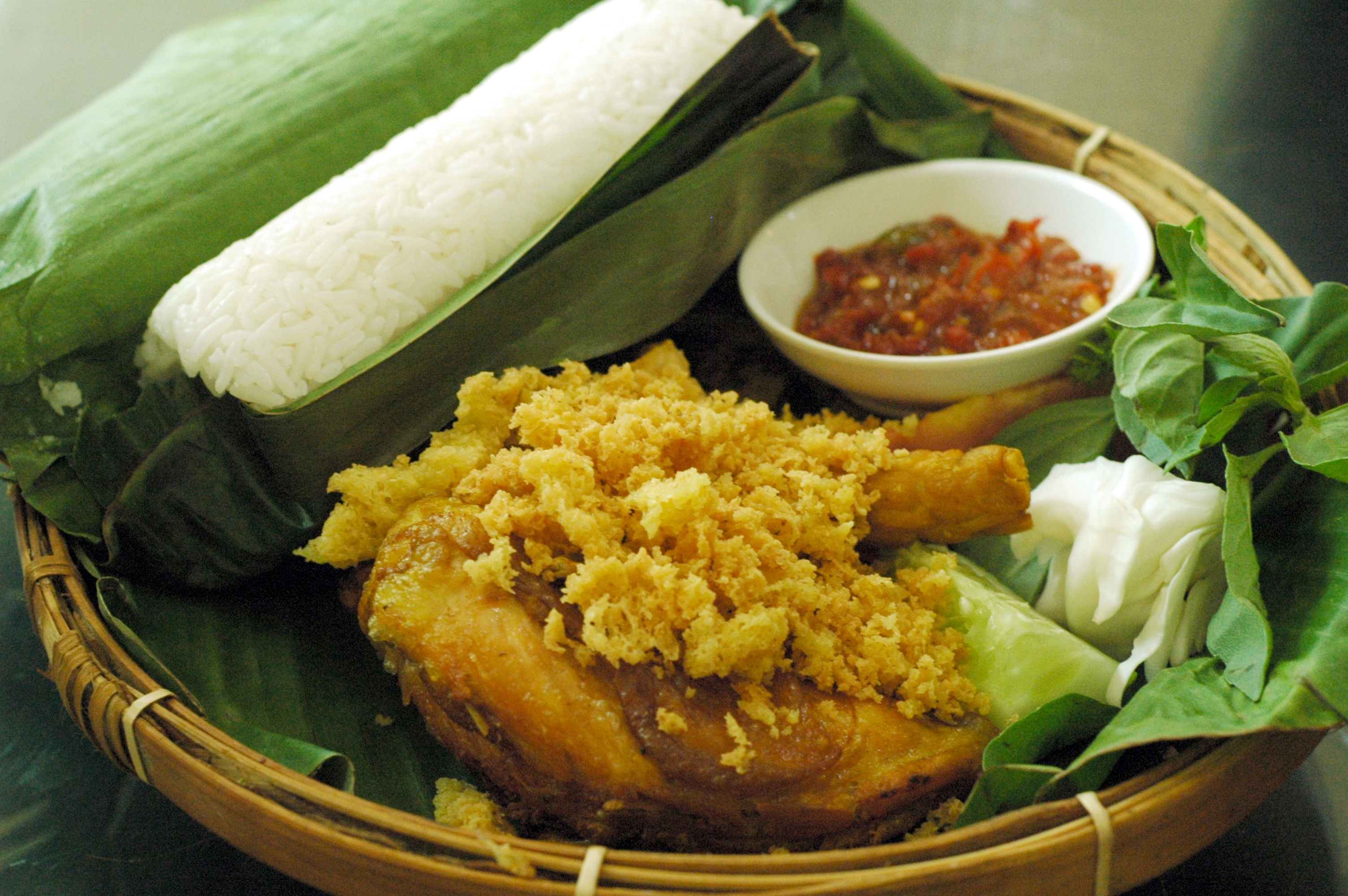 Nasi timbel with ayam penyet. Nasi timbel (rice wrapped in banana leaf in the Sundanese style) served with ayam penyet ("smashed" fried chicken), sambal chili sauce and a sprinking of fresh veggies. Taken at Dapoet Kampoeng, Nagoya Hill, Batam., Batam.